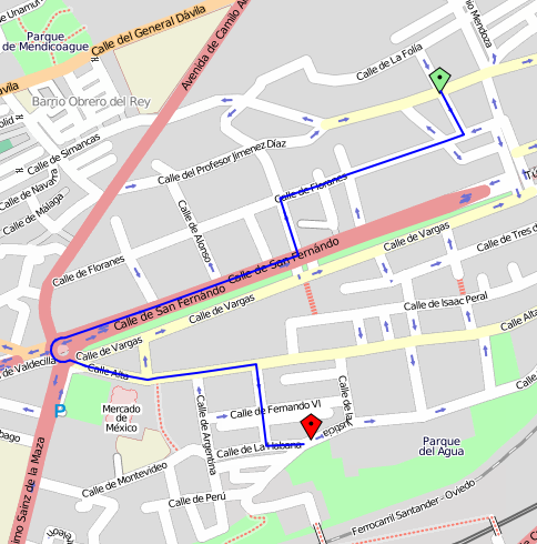 Calculating an optimal route between a point of origin (green) and a point of destination (red) using OpenStreetMap routing service